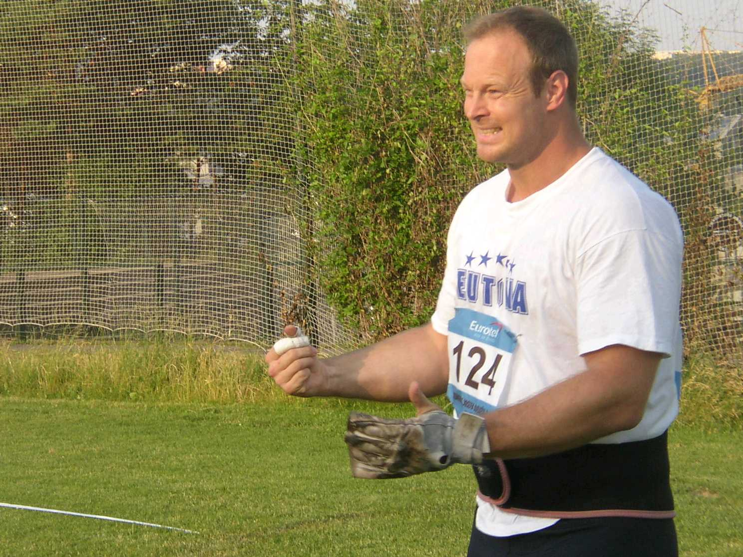 Karsten Kobs, German athlete (hammer throw), at Josef Odložil Memorial, Prague, 27th June 2005 photo by Miaow Miaow